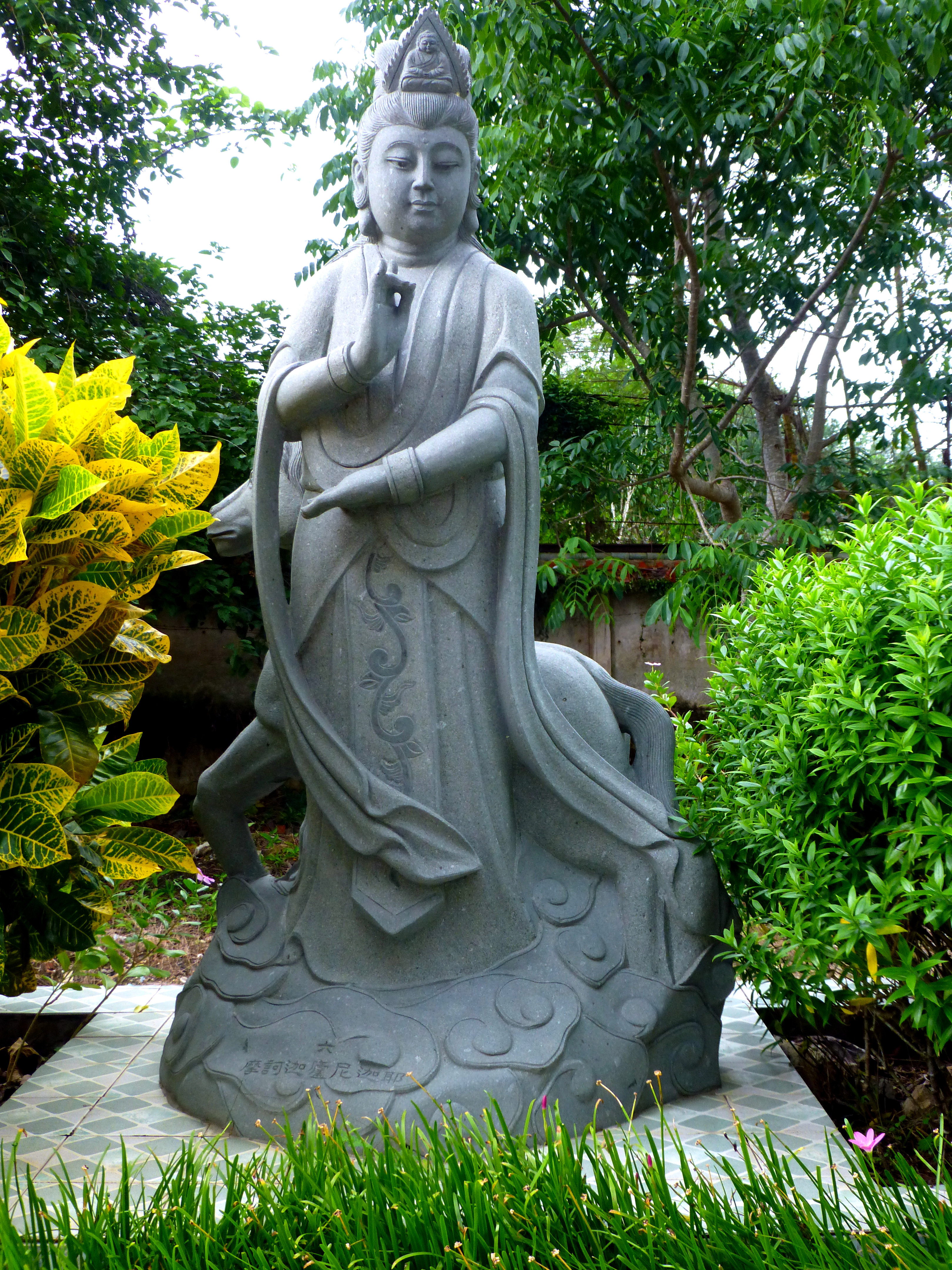 07 om, Wat Khao Rup Chang, Songkhla, Thailand Photograph from Wat Tham Khao Rup Chang in Songkhla Province, Thailand taken by Anandajoti.